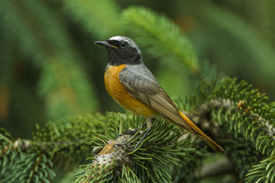 Common Redstart - Segrate - Italy_S4E2518-1